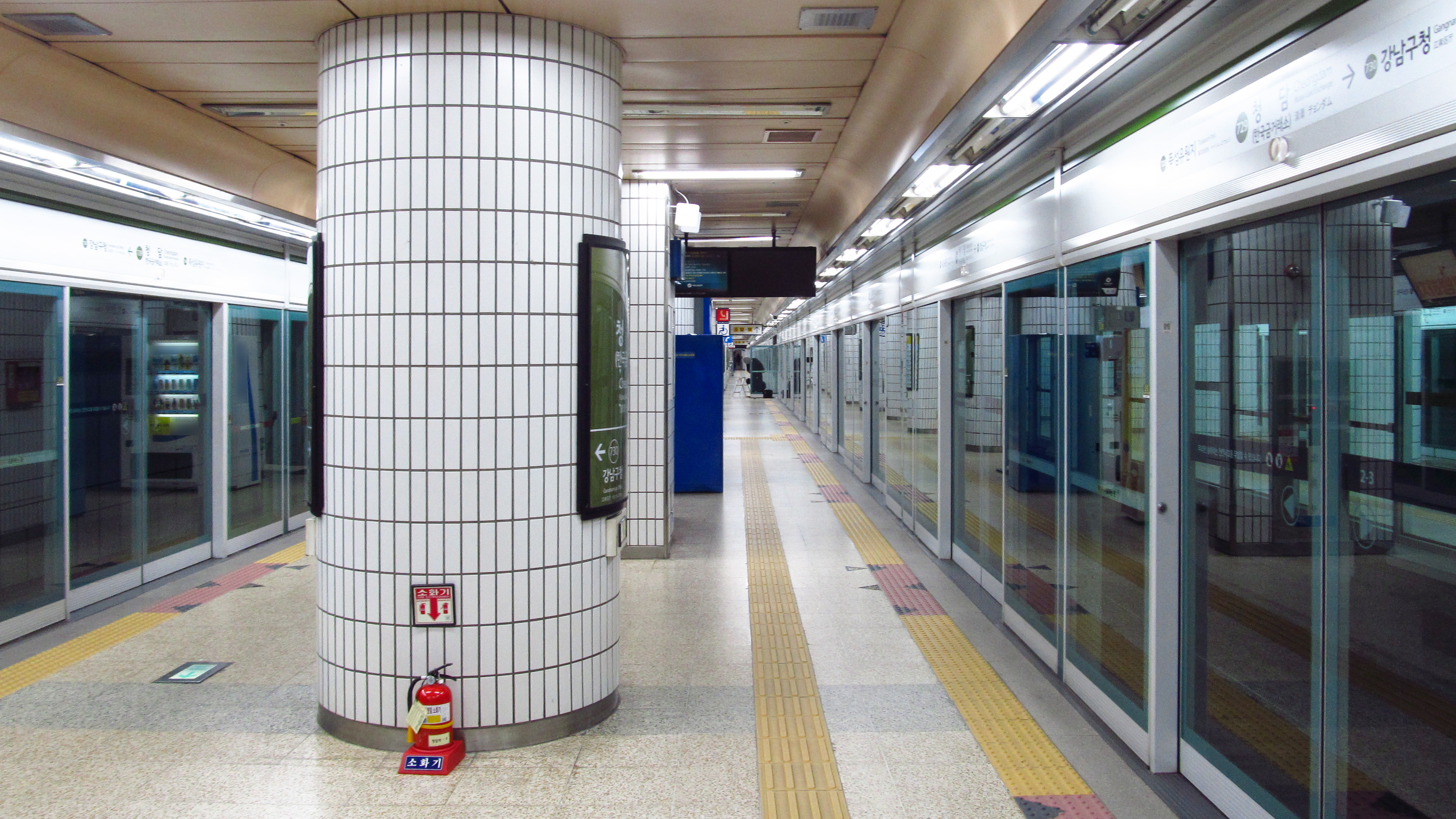 The platform at Cheongdam Station on Seoul Subway Line 7 in Gangnam-gu, Seoul, Republic of Korea(South Korea)